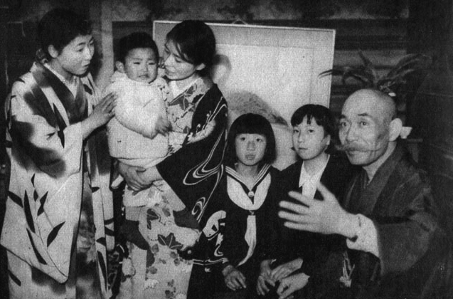 Japanese Prime Minister Sojōrō Hayashi (1876–1943, in office February–June 1937) and the members of his family celebrate his inauguralation.